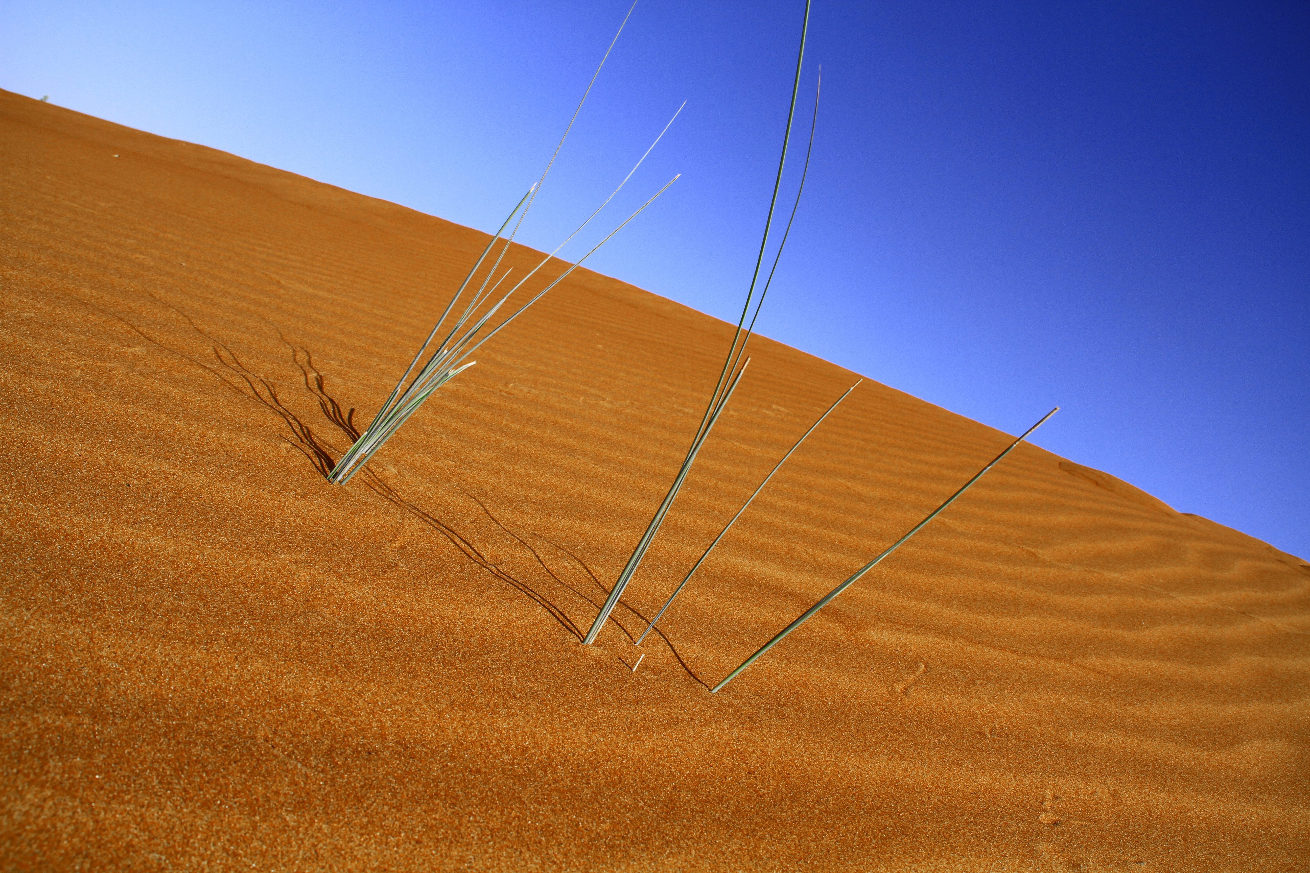 Desert in Dubai